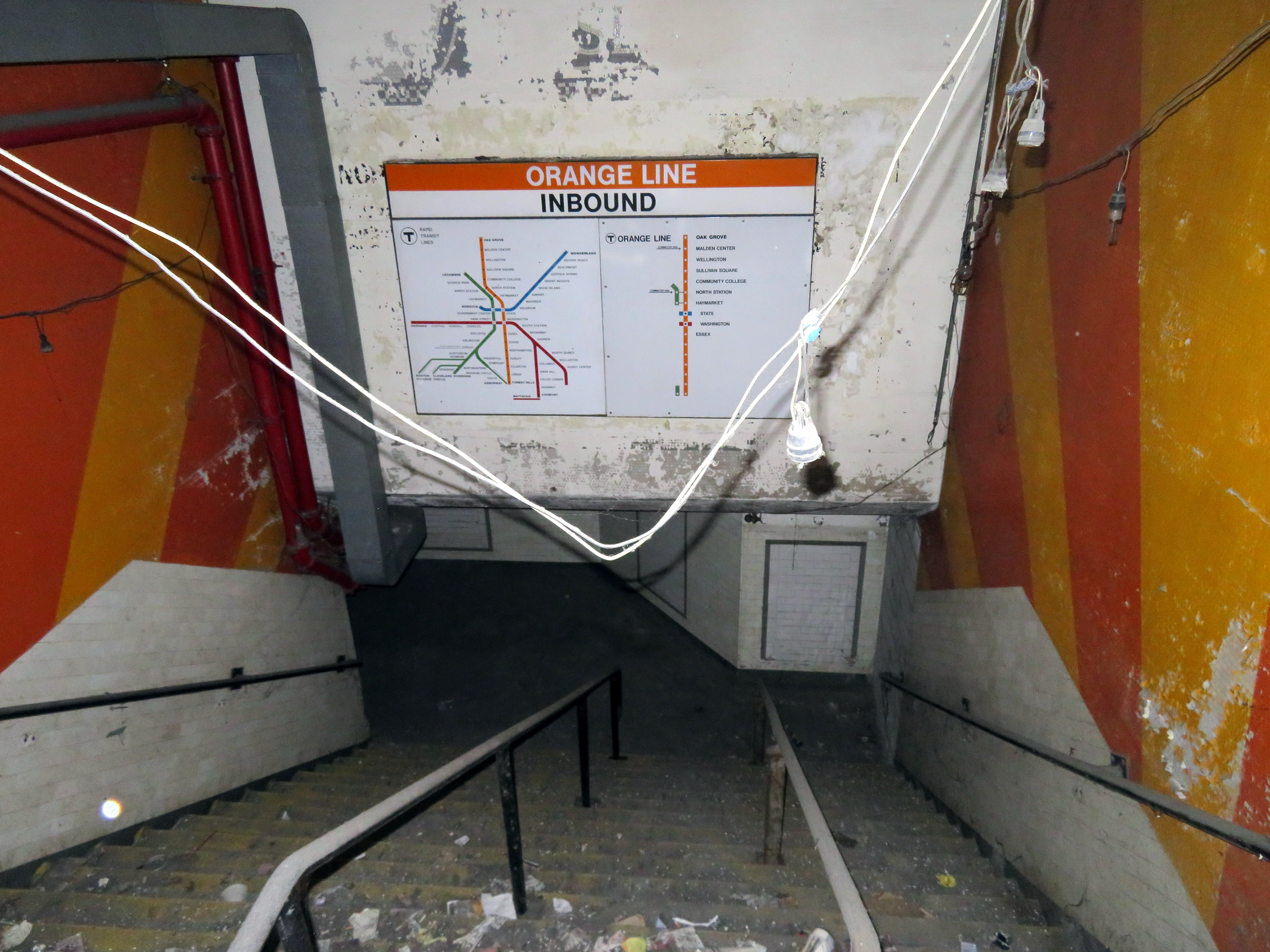 The interior of the former Essex Street entrance to Chinatown station in July 2019. (The view was accomplished by sliding a camera between the bars of the door, with the flash on.) The image reveals the history of the entrance: part of an "ESSEX" tile mosaic is at top, and the original wall tiles are in position. The signage and map dates to 1977; it was likely installed along with the orange/red paint as a halfhearted modernization in the late 1970s. Full modernization of the northbound side did not occur until 1986-87, at which time this entrance was replaced with an entrance north of Essex Street.